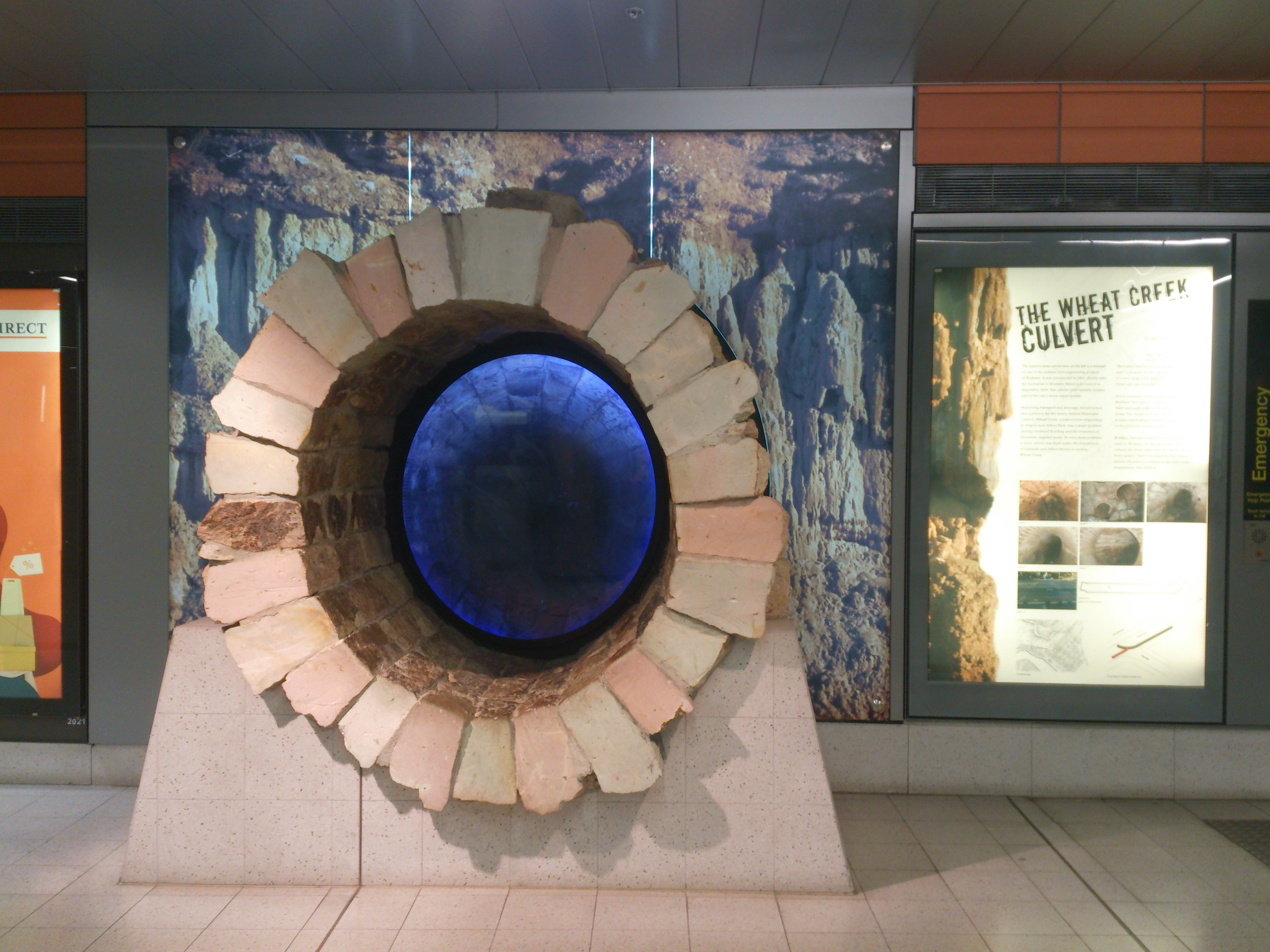 Historical Display on King George Square Busway Platform 1, Stop 1f.